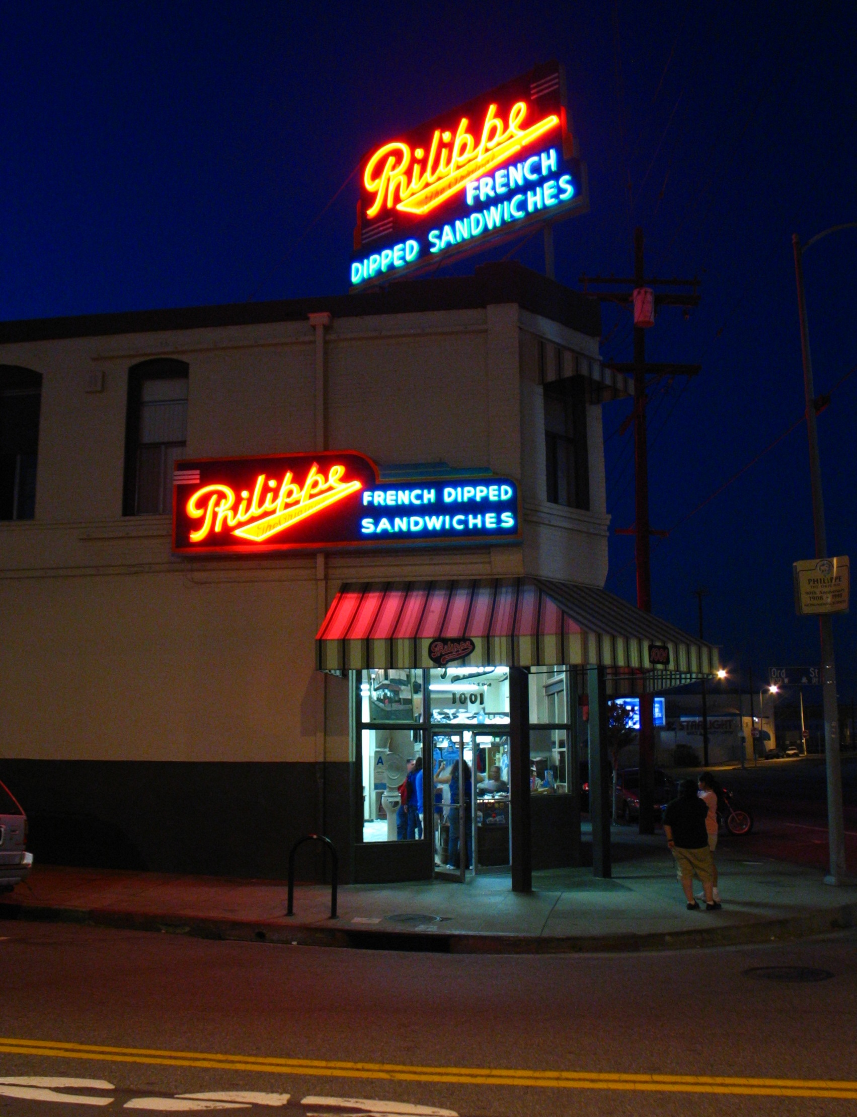 The facade and neon sign of Philippe's, just after sunset — a landmark in Downtown Los Angeles, California.